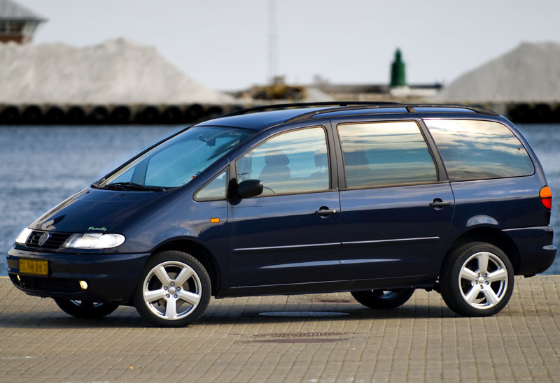 Volkswagen Sharan, manufacturer code 7M8 (production year 1995-2000)